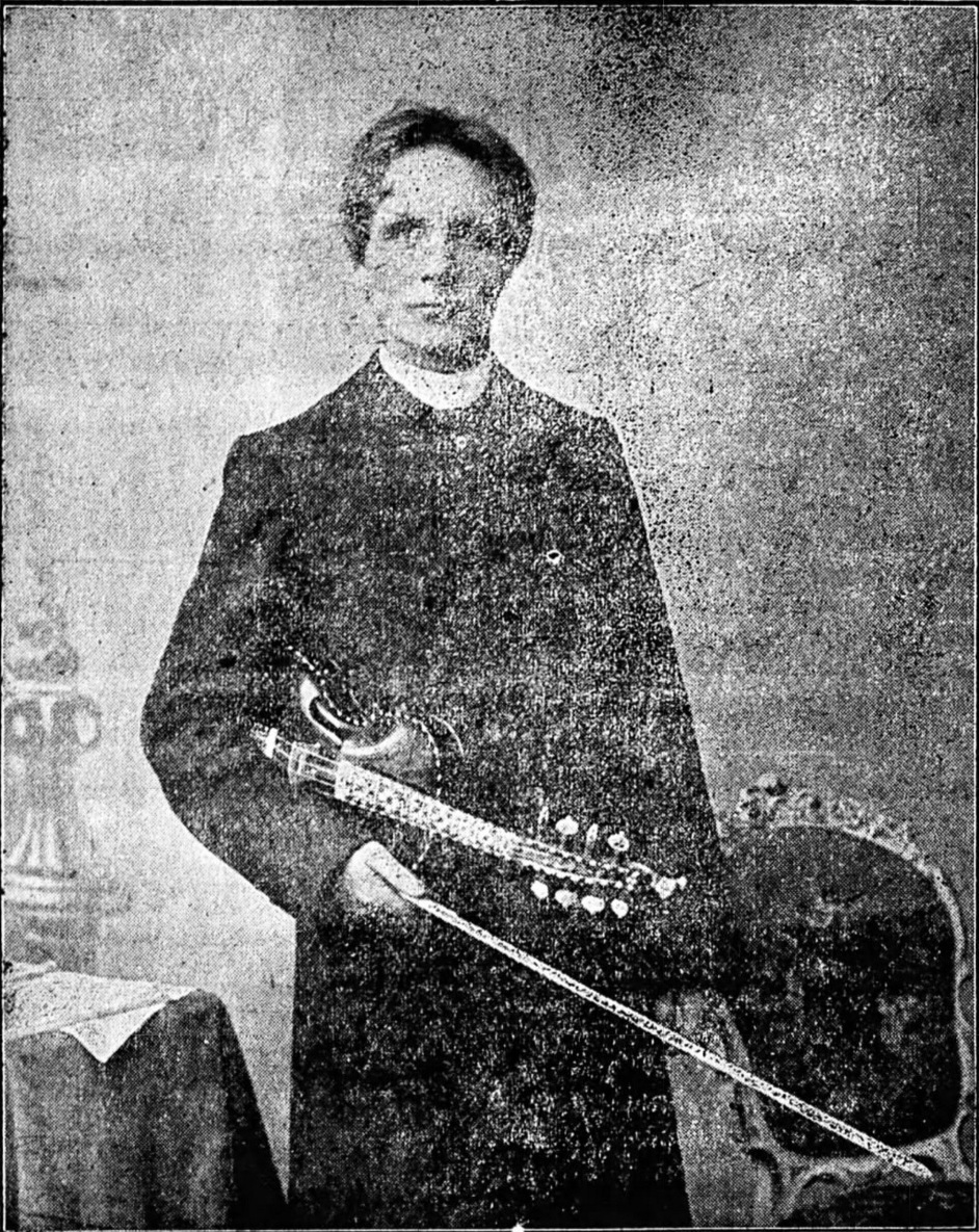 Olav Moe (1872-1967), Norwegian fiddler, published in the Warren Sheaf, 28 March 1907